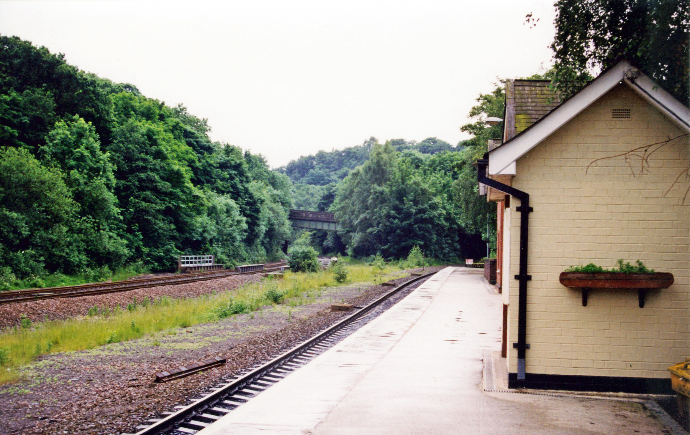 Dore station, 1998. View southward on the remaining single platform, which from 3/85 served trains in either direction on the ex-Midland Hope Valley (Manchester - Sheffield) main line. The double-track on the left is the ex-Midland main line from Sheffield and the North to Chesterfield, then Nottingham, Leicester and London St Pancras also Derby, Birmingham, Gloucester and Bristol: the platforms on these lines were removed in ... , as trains towards Chesterfield no longer called at what until then had been 'Dore & Totley' station. However in 11/2013 a new platform was built, a much-upgraded 'Dore & Totley Park & Ride' station came into being